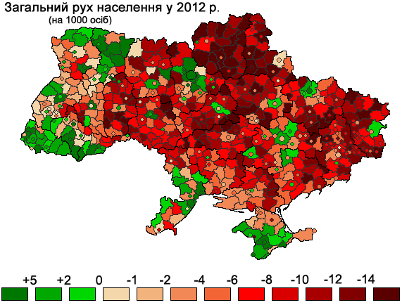 Population growth rate in Ukraine 2012